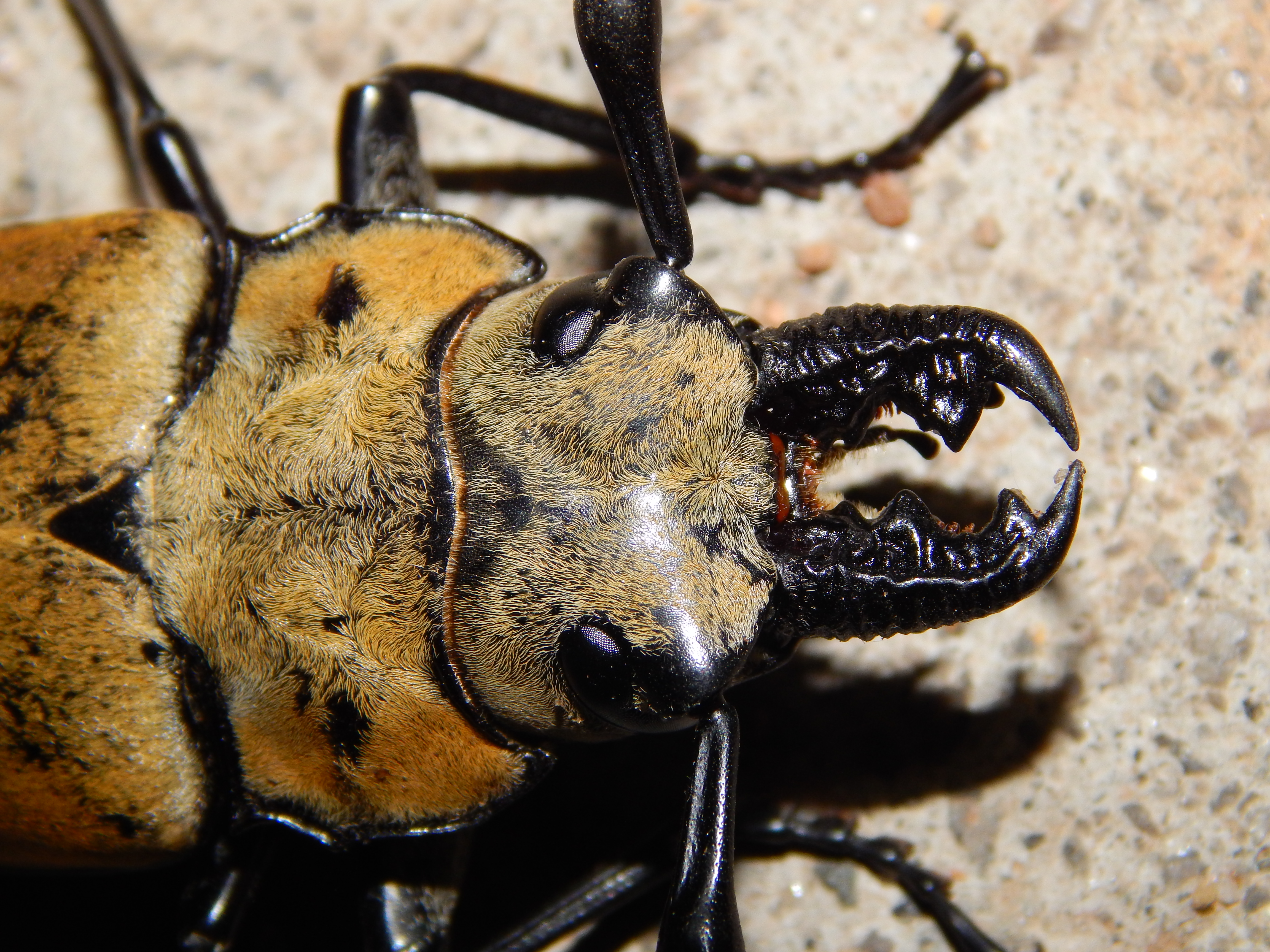 Trictenotoma grayi, family Trictenotomidae, (Coleoptera spotted around Madikeri, India